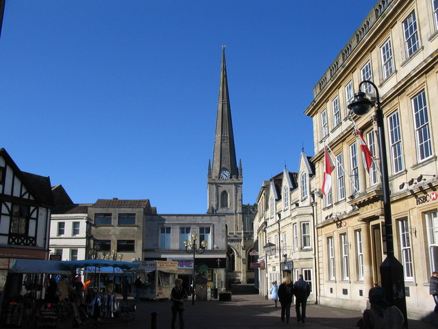 Fore Street, Trowbridge A view looking to the northwest along Fore Street. The church visible in the background is St. James parish church at ST8558. The present church, built in the perpendicular style circa 1484, stands in the centre of the county town. It is the original parish church of Trowbridge, with a ring of 12 bells. The poet Crabbe was Rector here until his death in 1832. He is buried in the chancel, where there is a memorial to celebrate his life.